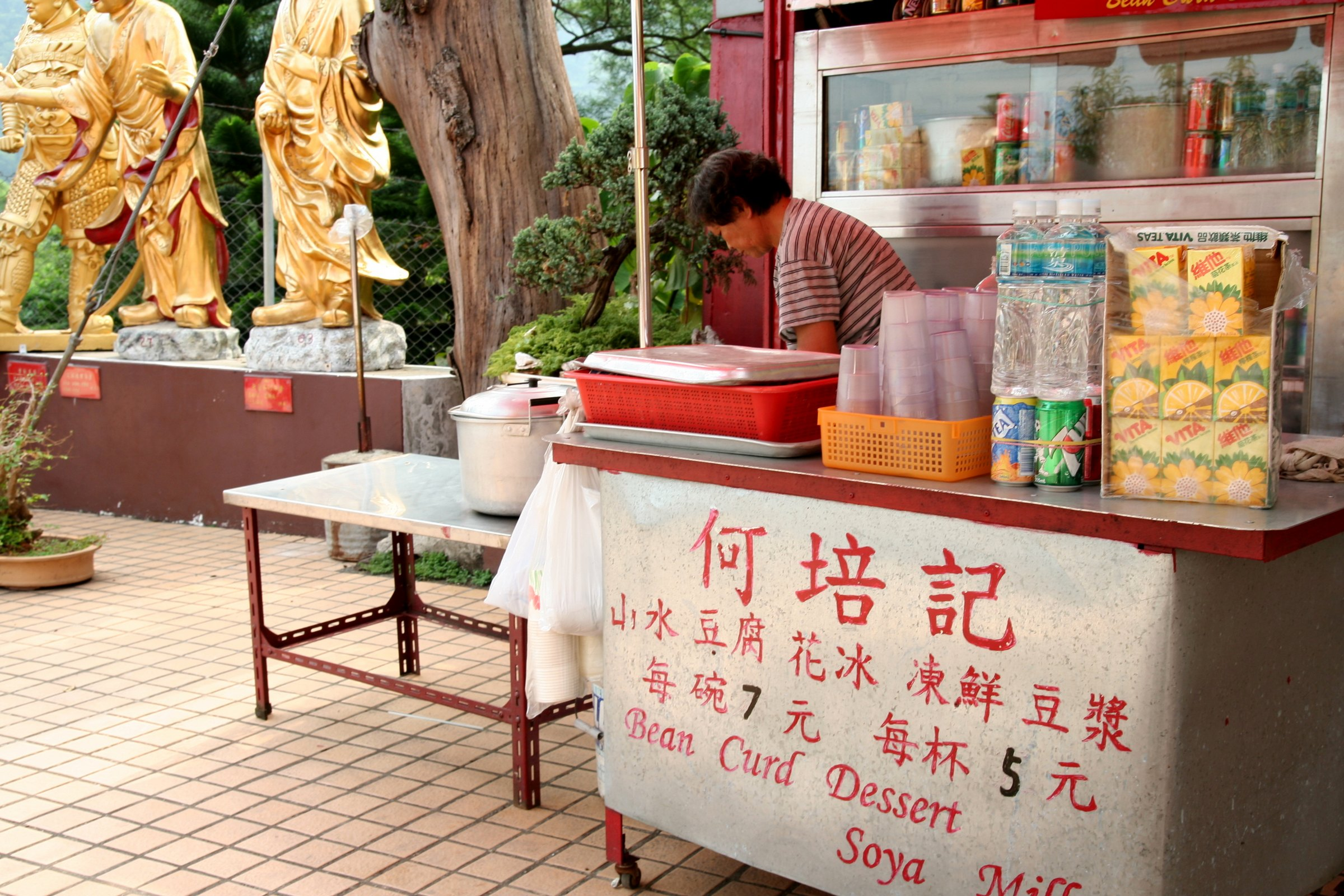 Ten Thousand Buddhas Monastery (萬佛寺) is a Buddhist temple in Shatin, Hong Kong. Photograph author is me.